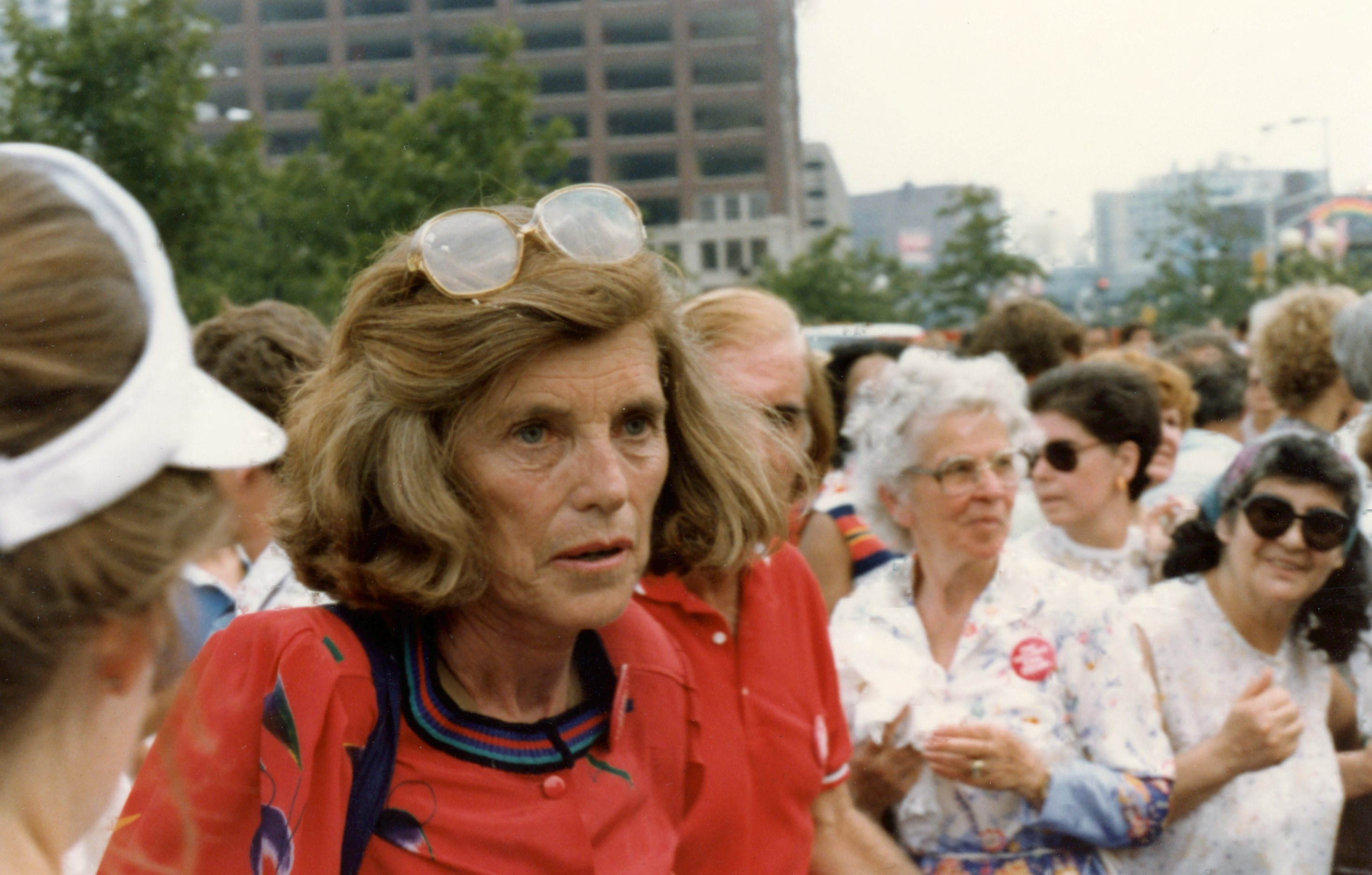 Eunice Kennedy Shriver